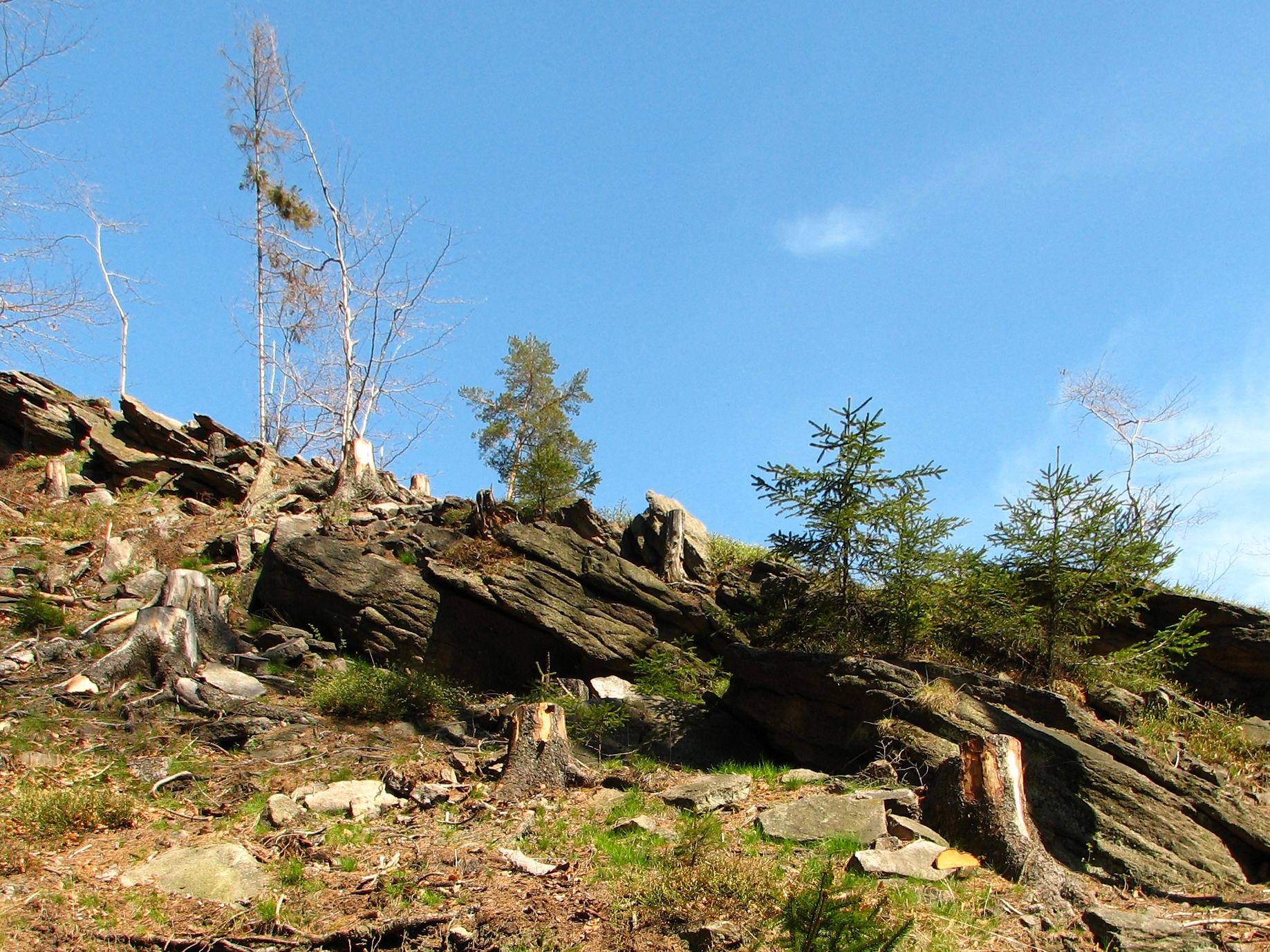 A sandstone rock outcrop at Glinne (Barania Góra range) mountainside, Poland.